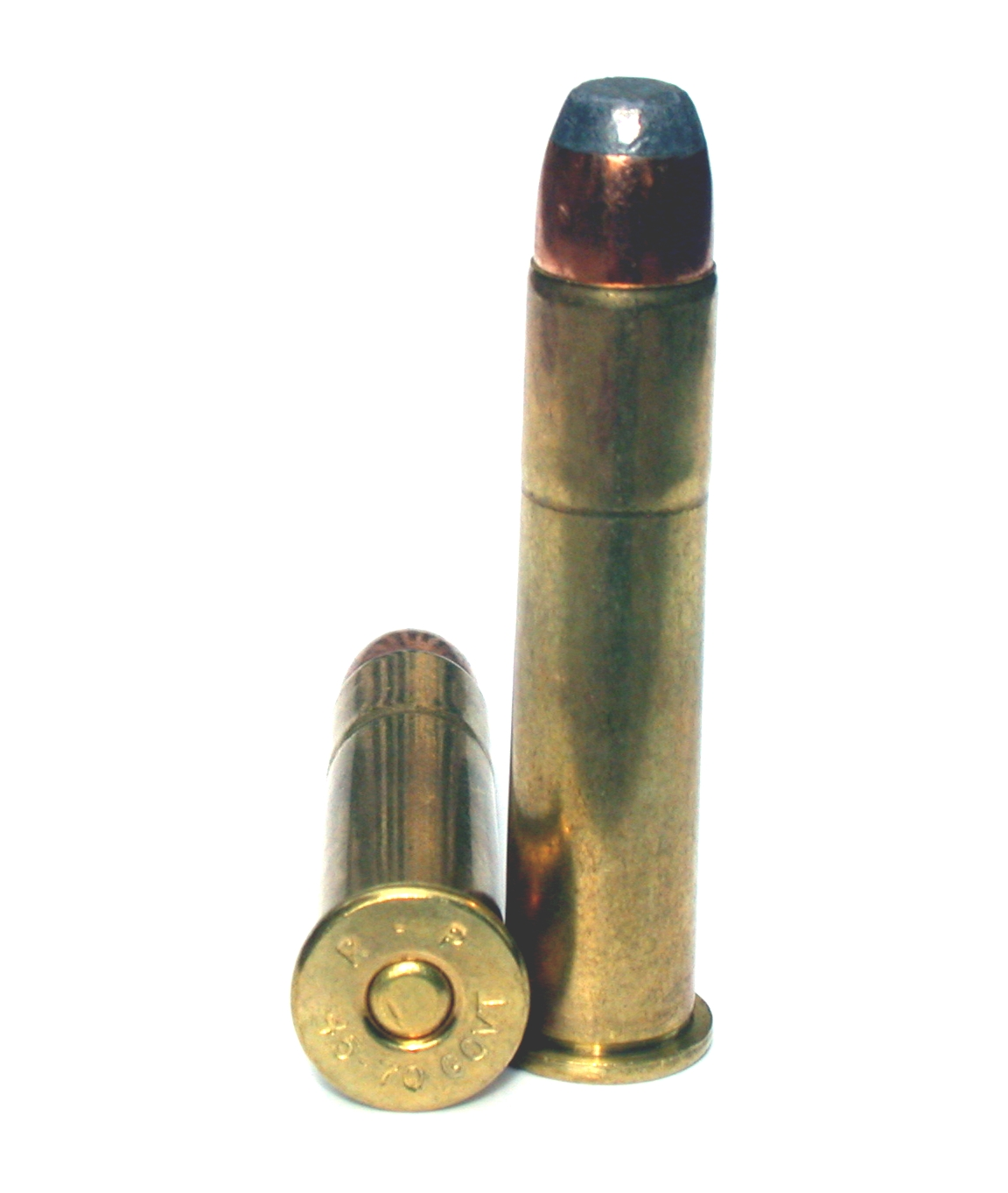 .45-70 modern cartridges